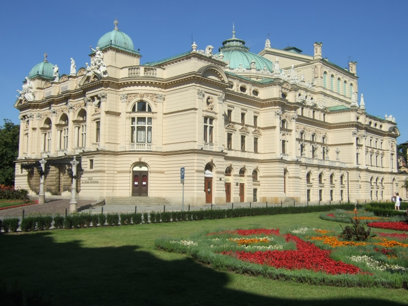 Juliusz Słowacki Theatre in Krakow.